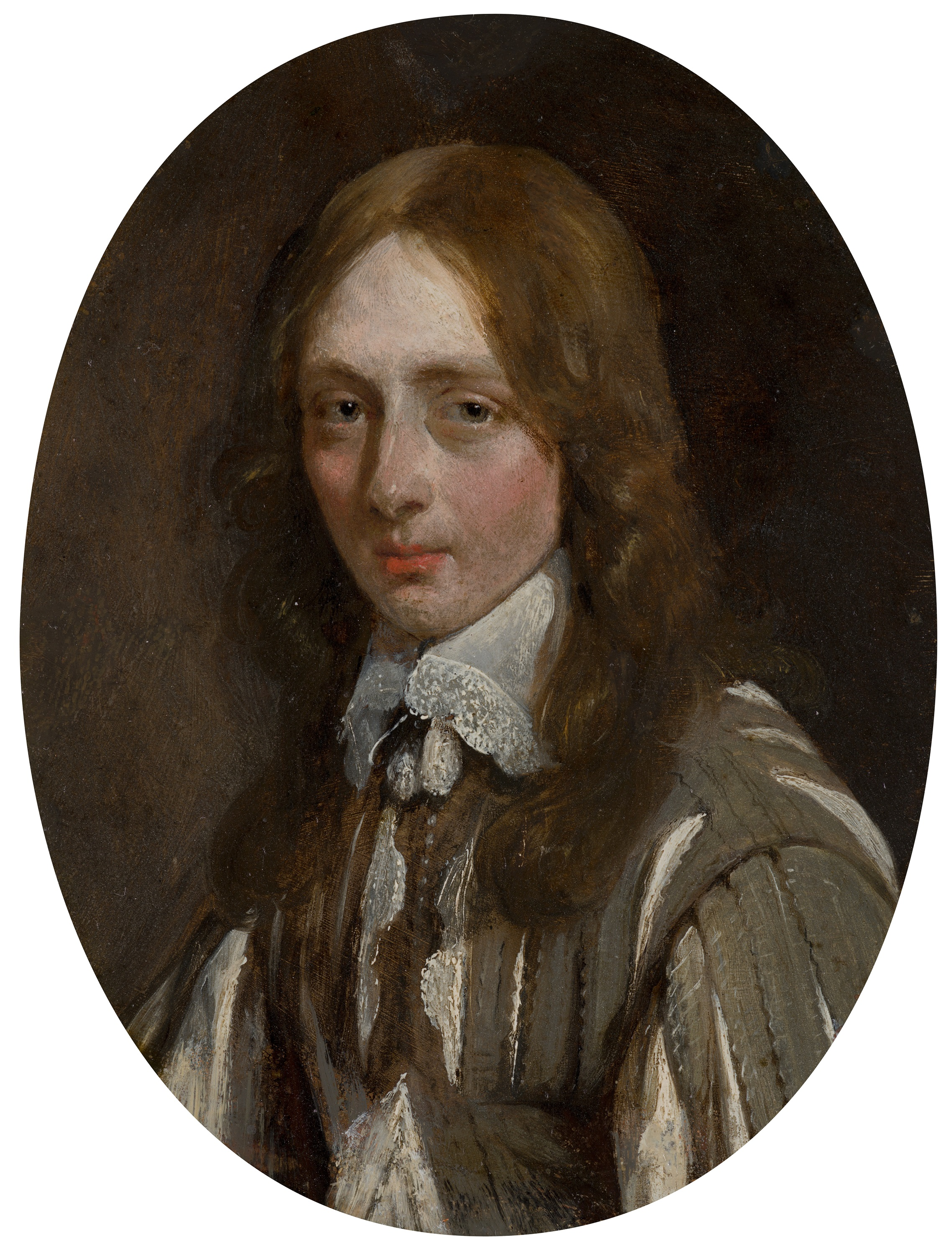 This image is available from the Netherlands Institute for Art Historyunder digital ID 180326. This tag does not indicate the copyright status of the attached work. A normal copyright tag is still required. See Commons:Licensing.